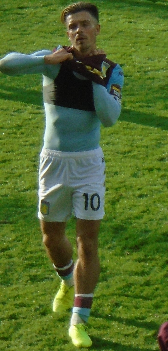 The captain of Aston Villa Jack Grealish giving a young supporter his shirt after Villa have wone the match 1-5 at Carrow Road, Norwich, Norfolk.